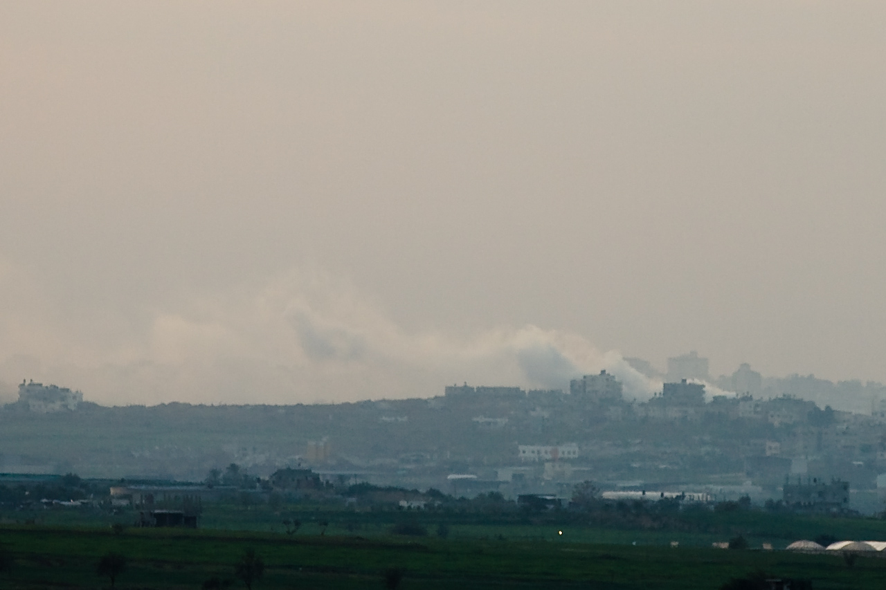 Smoke in Gaza, 12.1.2009